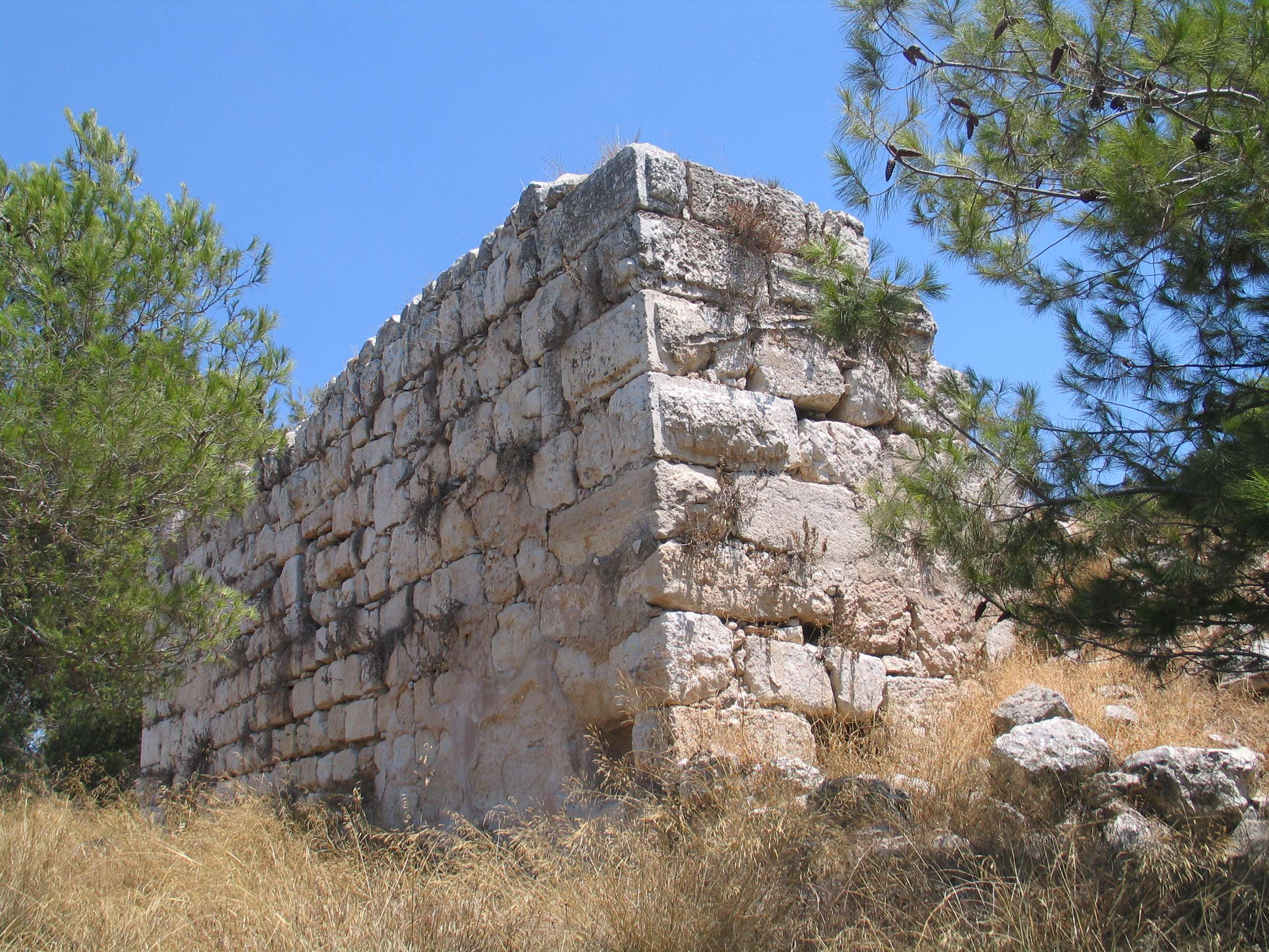 Remains of a crusader tower of Cola (Chola), north of Givat Koach junction, Israel.